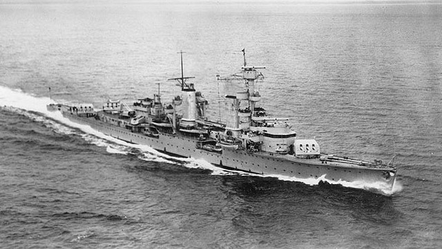 The German light cruiser Köln underway during the later 1930s.